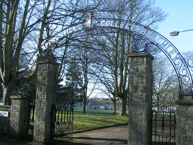 Army Apprentice College, Beachley, England